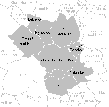 Cadastral map of Jablonec nad Nisou